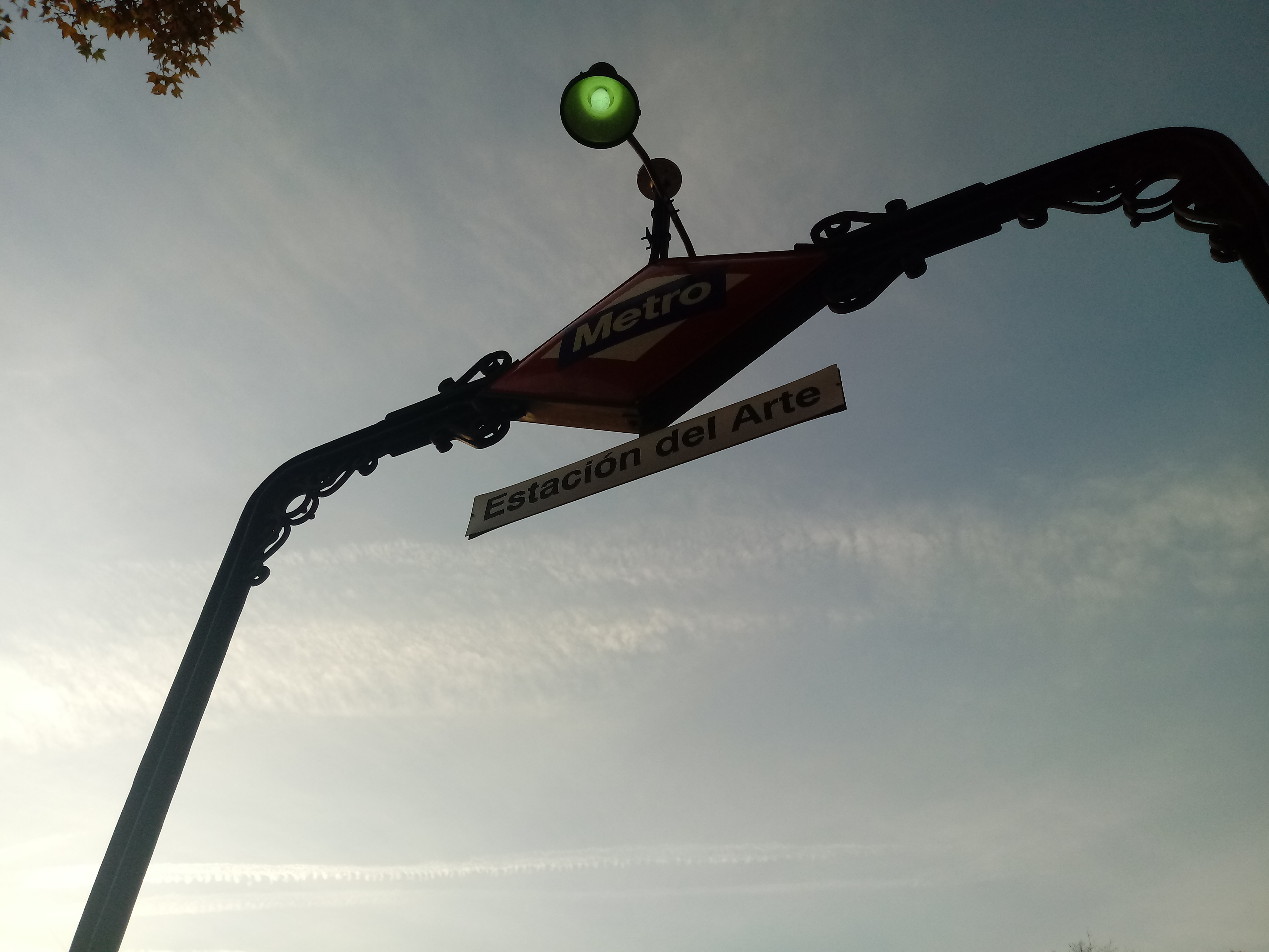 Sign at the entrance to "Estación del Arte" ('Art Station'), in the Madrid Metro